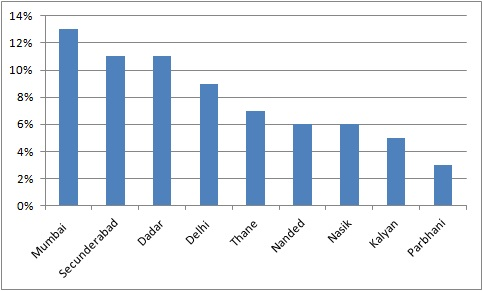 Passenger Traffic Trend for Aurangabad Station